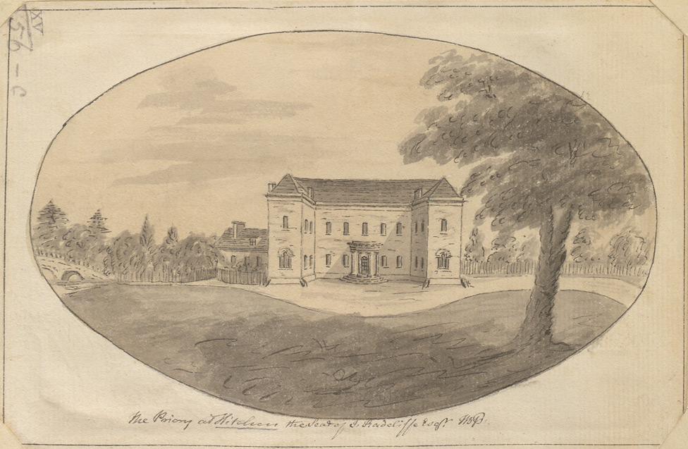 View of Hitchin Priory in Hitchin in Hertfordshire, the home of John Radcliffe MP in 1795